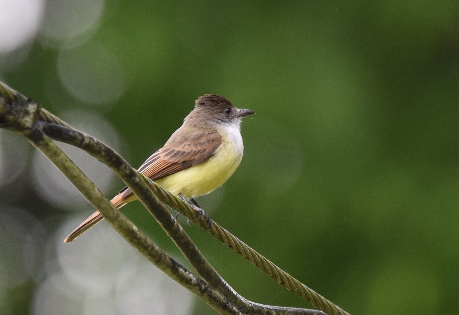 Costa Rica - 2/13/16 Rancho Naturalista